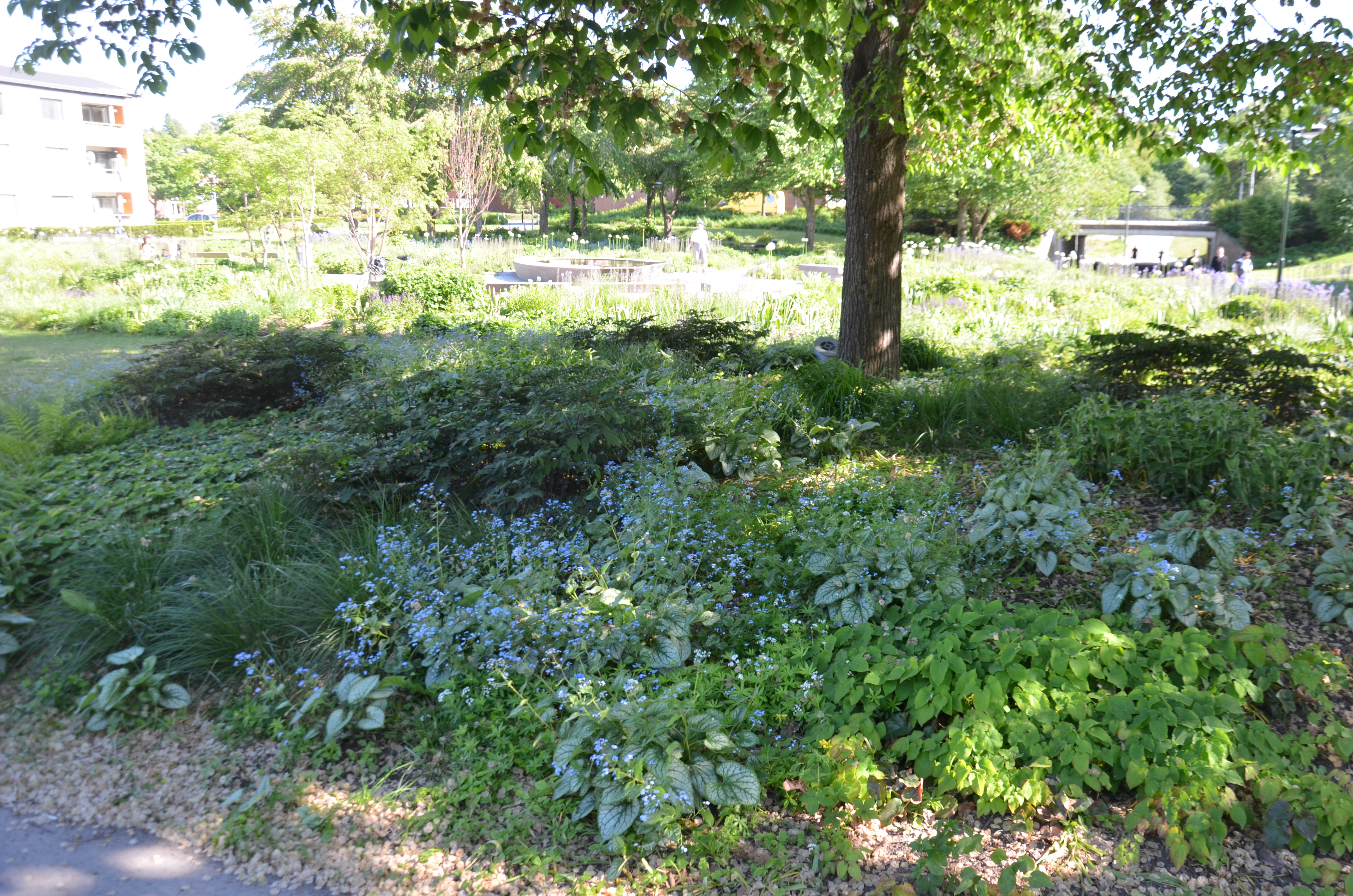 Perennparken at Skärholmen in Stockholm, Sweden. Designed by Piet Oudlof.